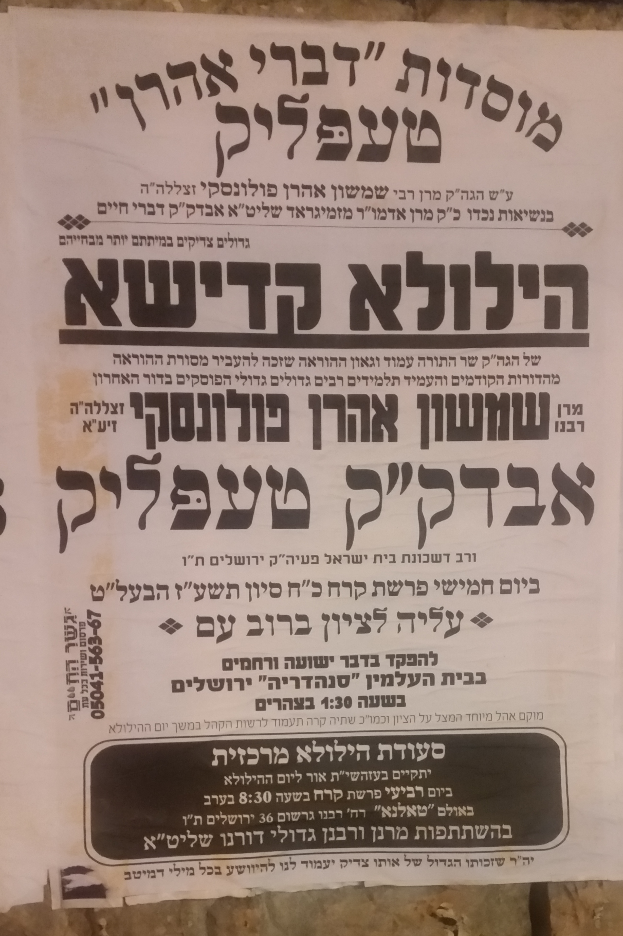 Broadside of the Yahrzeit of Tepliker Rov